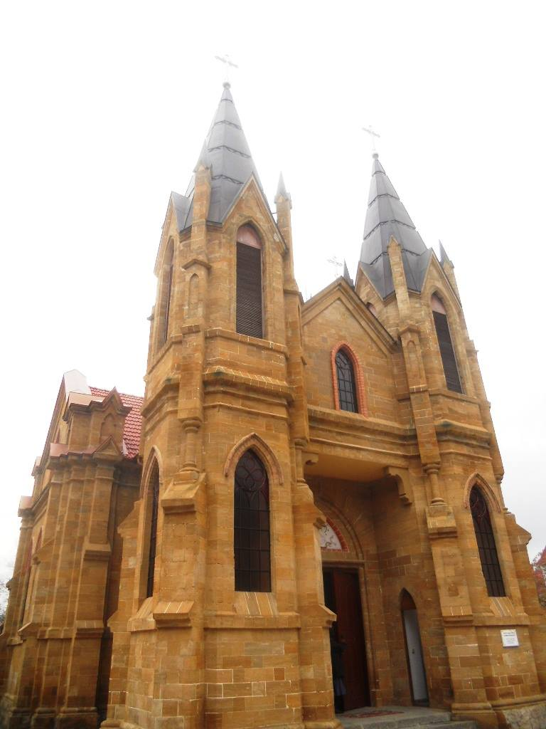 Image of the Roman Catholic church in Orhei, Republic of MoldovaRomână: Vedere a Bisericii romano-catolice din Orhei, Republica Moldova